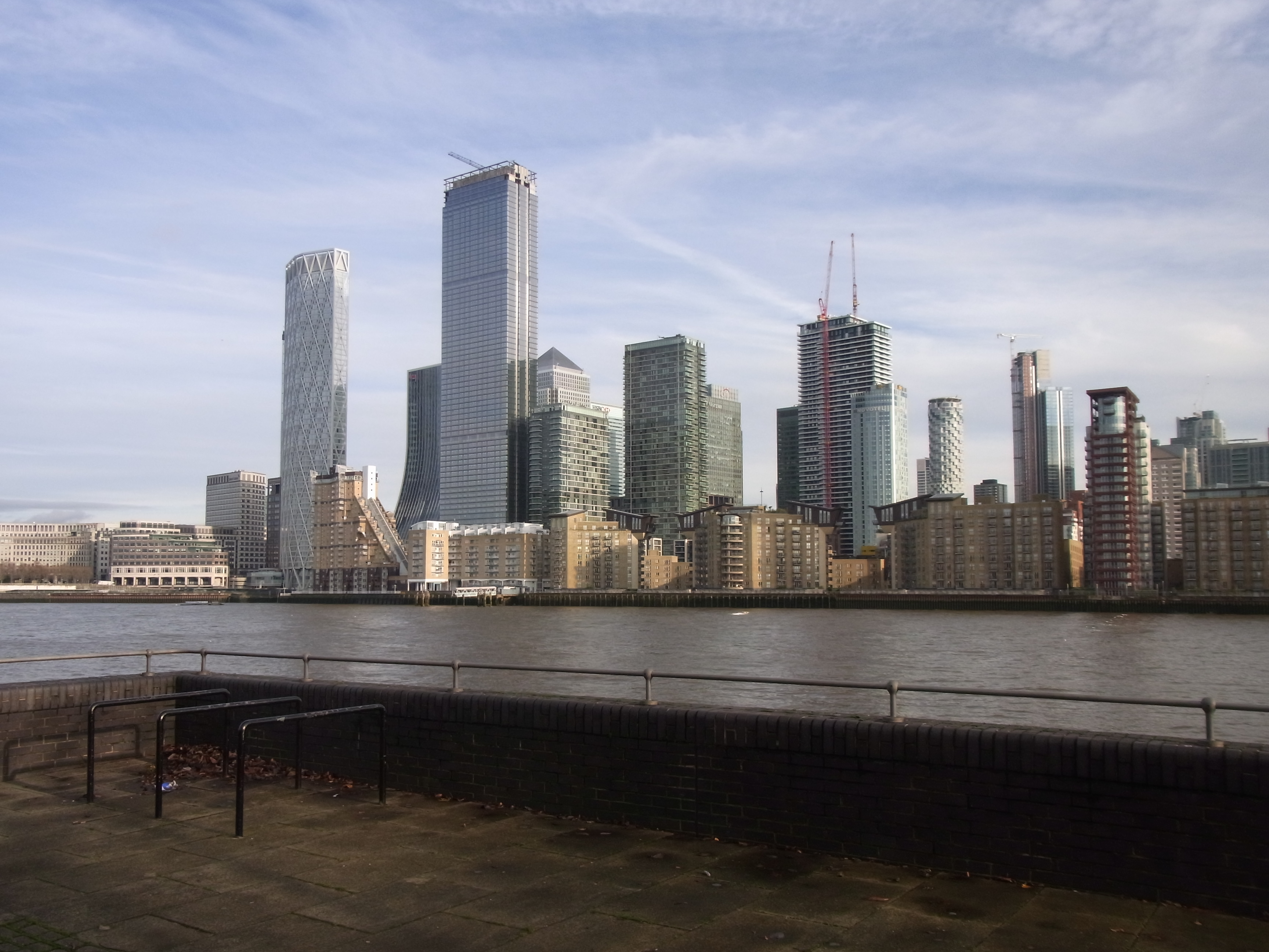 Canary Wharf and Isle of Dogs as viewed from south-east